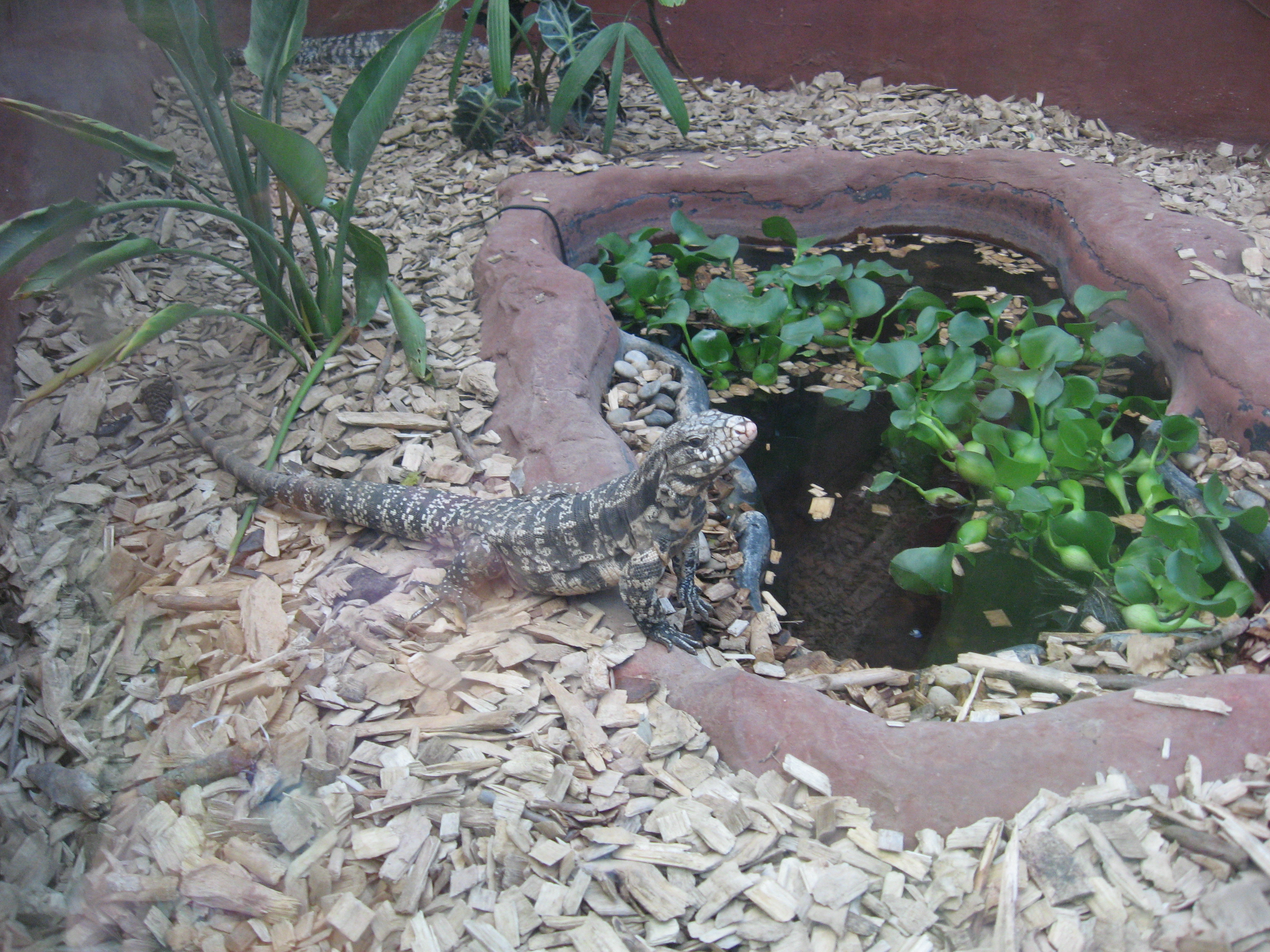 Argentine Black and White Tegu, jerusalem zoo